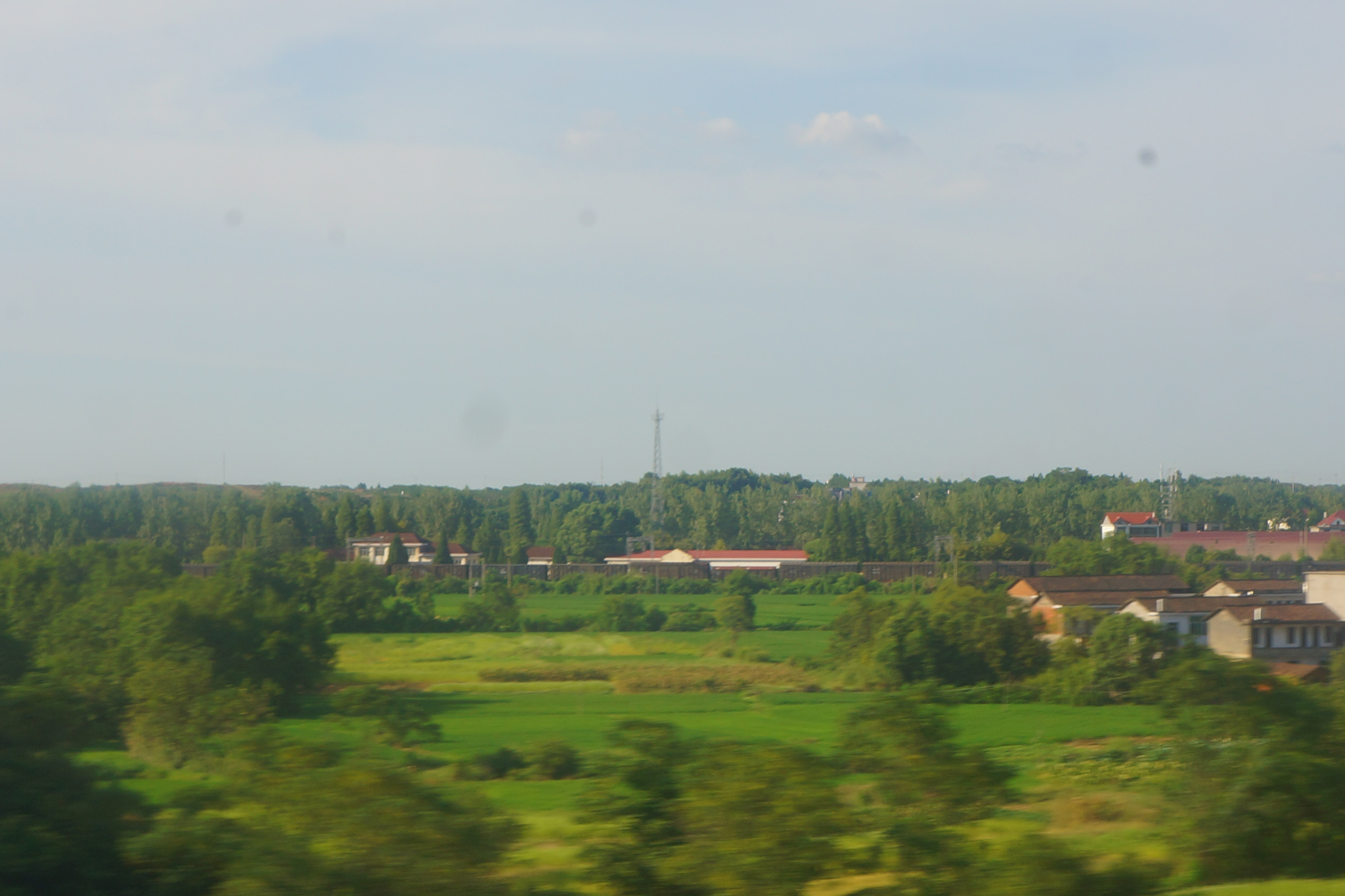 201608 Yaqian Railway Station